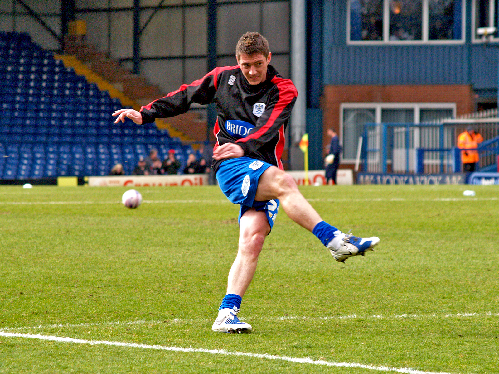 Bury FC forward Phil Jevons warming up before the Bury vs. Bournemouth game at Gigg Lane, home of Bury FC. Saturday 28th March 2009